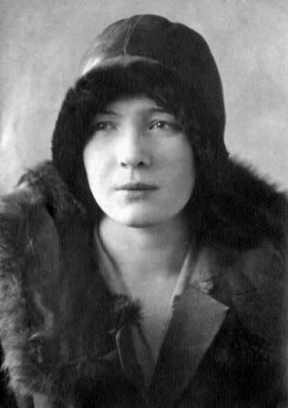 Olga Bergholz, 1930